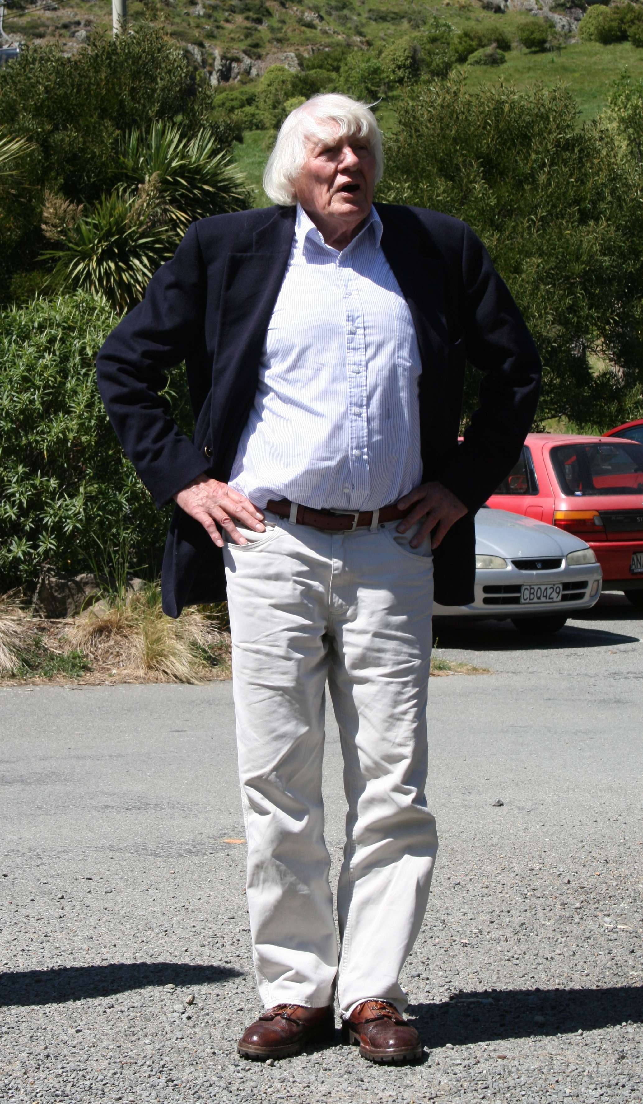 Architect Peter Beaven near the Lyttelton Road Tunnel Administration building.